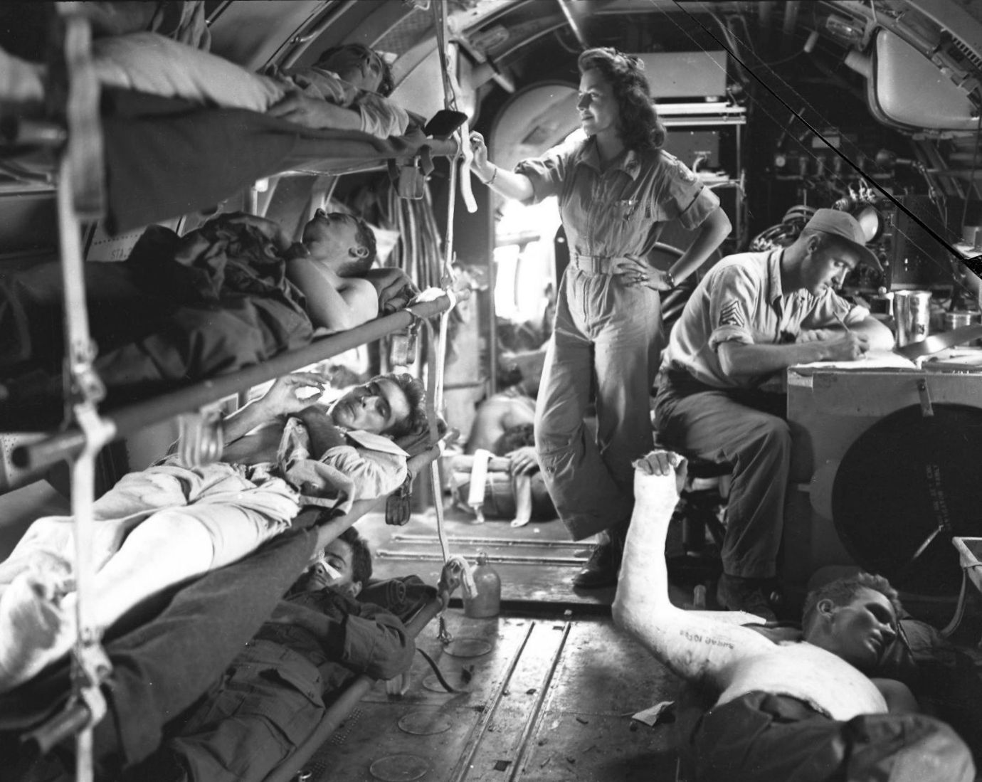 C-46 air evacuation from Manila, Philippine Islands. Patients in bunks in a plane. Flight nurse standing near bunks. Soldier writing at a desk.